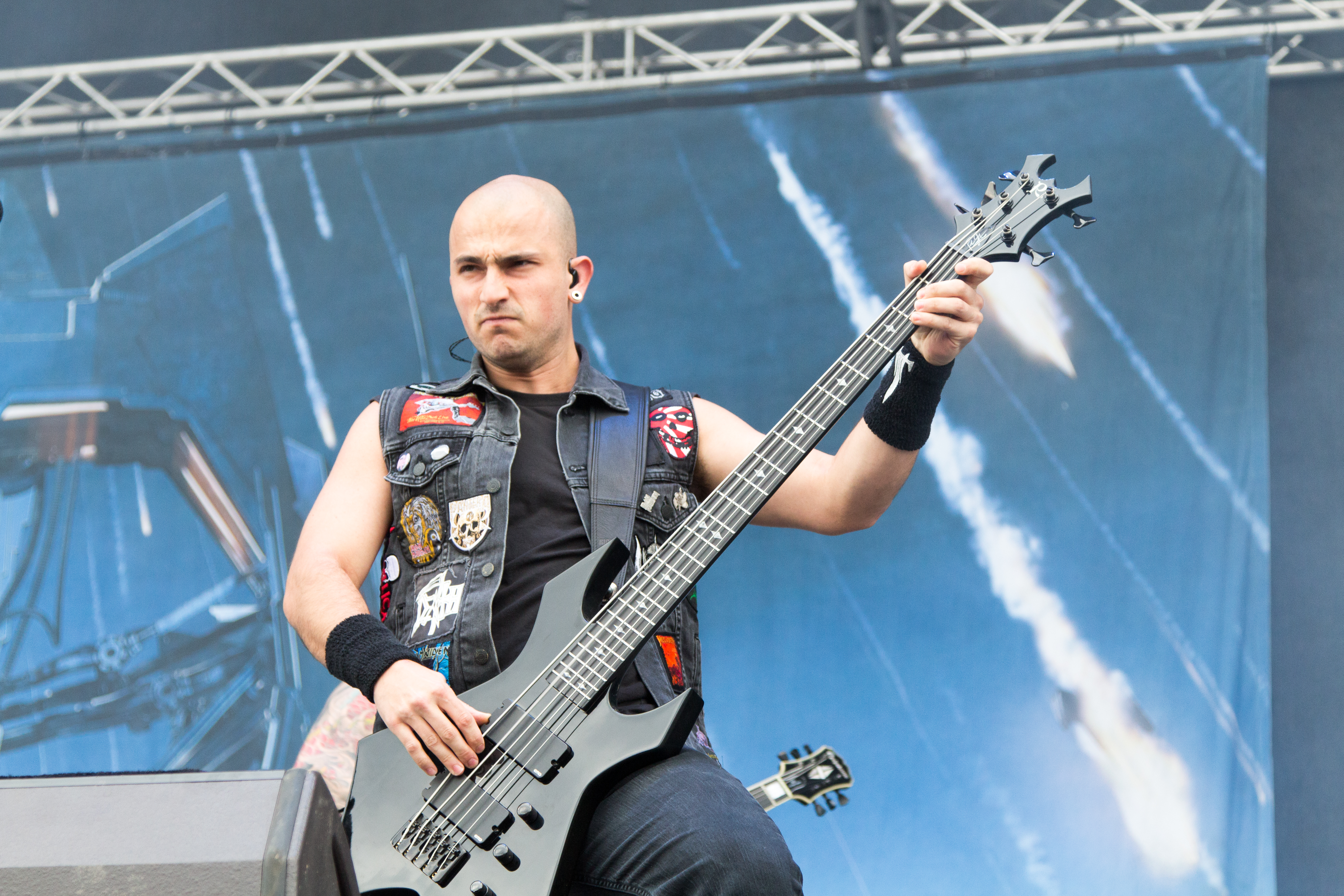 Paolo Gregoletto from Trivium at Nova Rock 2014